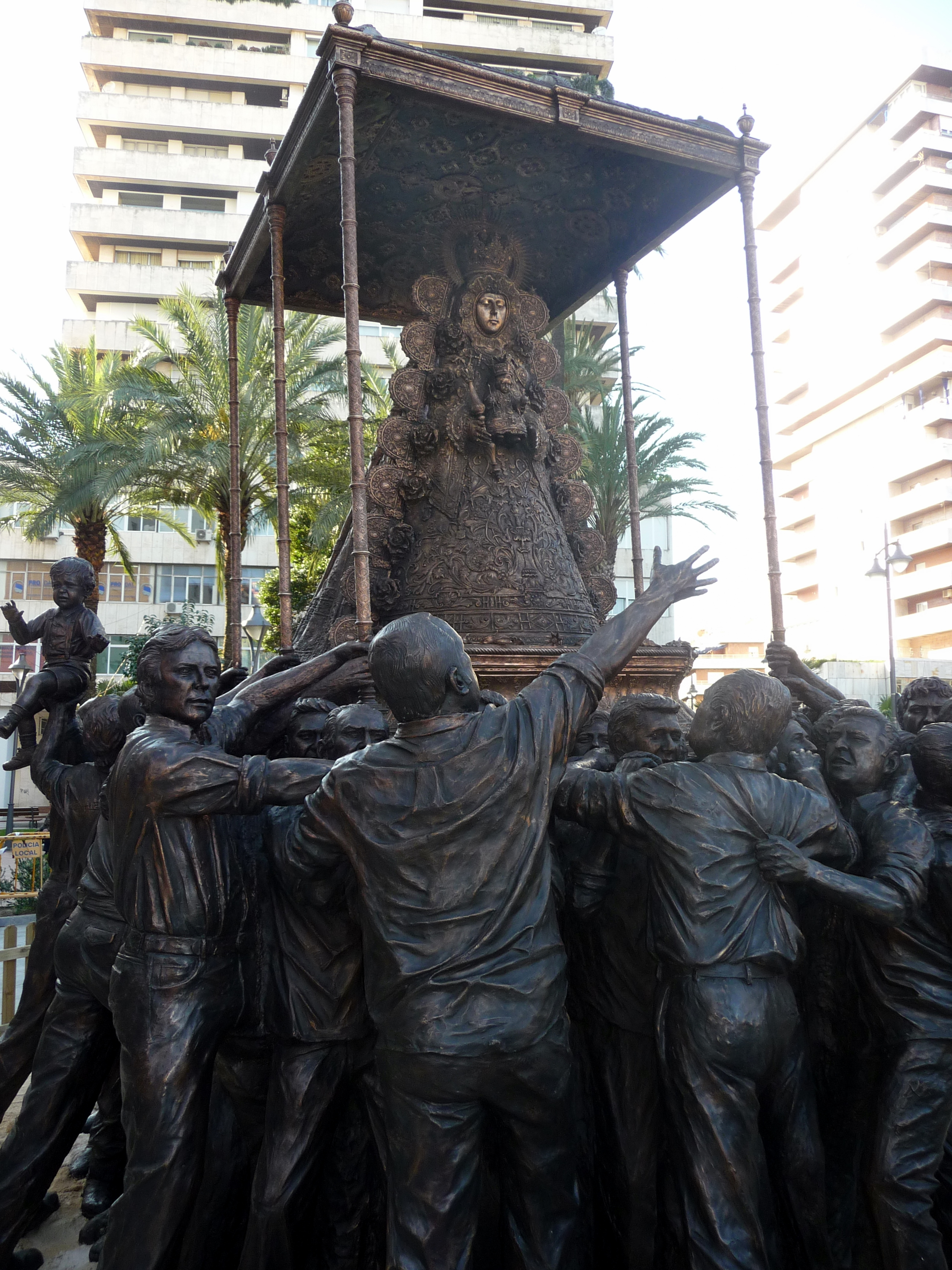 Virgen del Rocío monument. By Elia R. Picón. Huelva (Spain)